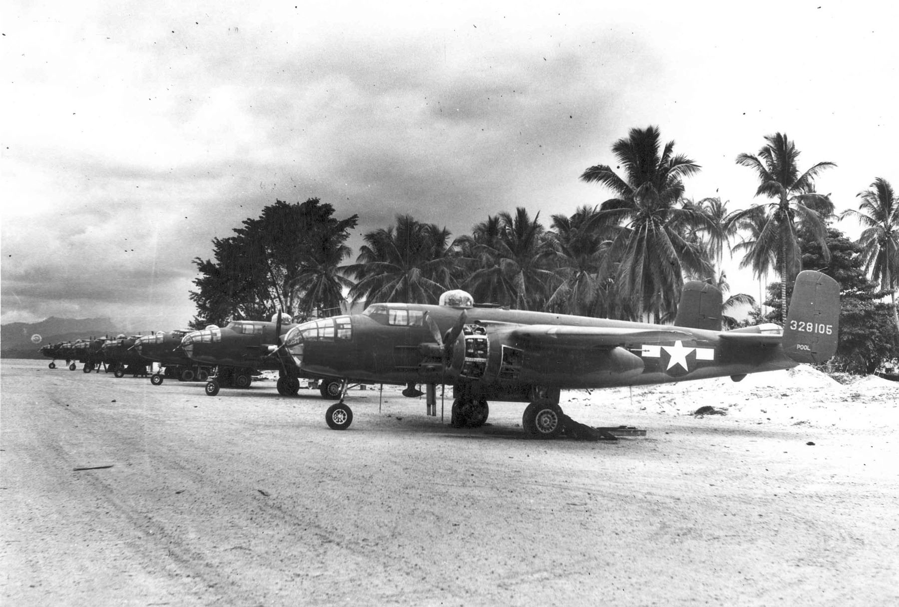 B-25 Mitchell bombers of the U.S. 42nd Bomb Group, 69th Bomb Squadron at Cape Sansapor, New Guinea, Sep 1944-Feb 1945